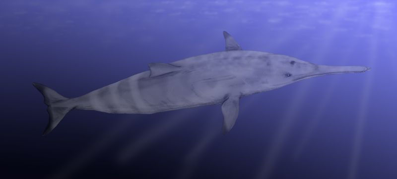 Squalodon calvertensis, a toothed whale from the Late Miocene of North America, pencil drawing, digital coloring